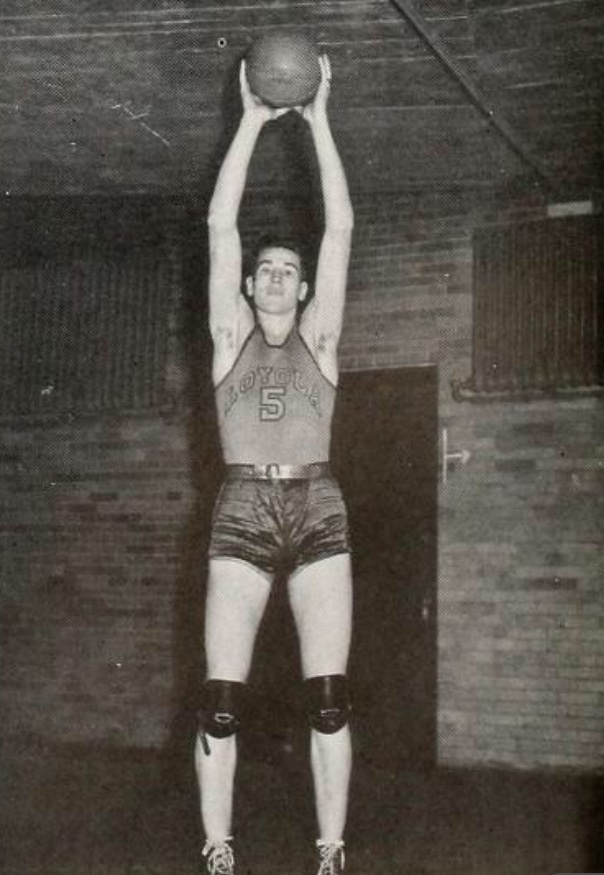 Loyola University Chicago Ramblers basketball player Mike Novak from the 1937 “Loyolan” yearbook.